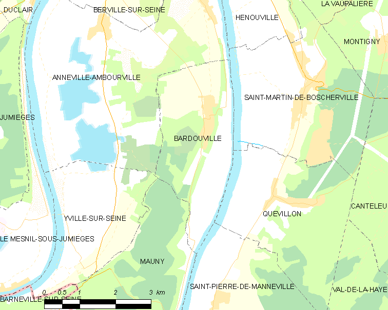 Map of French municipality Bardouville